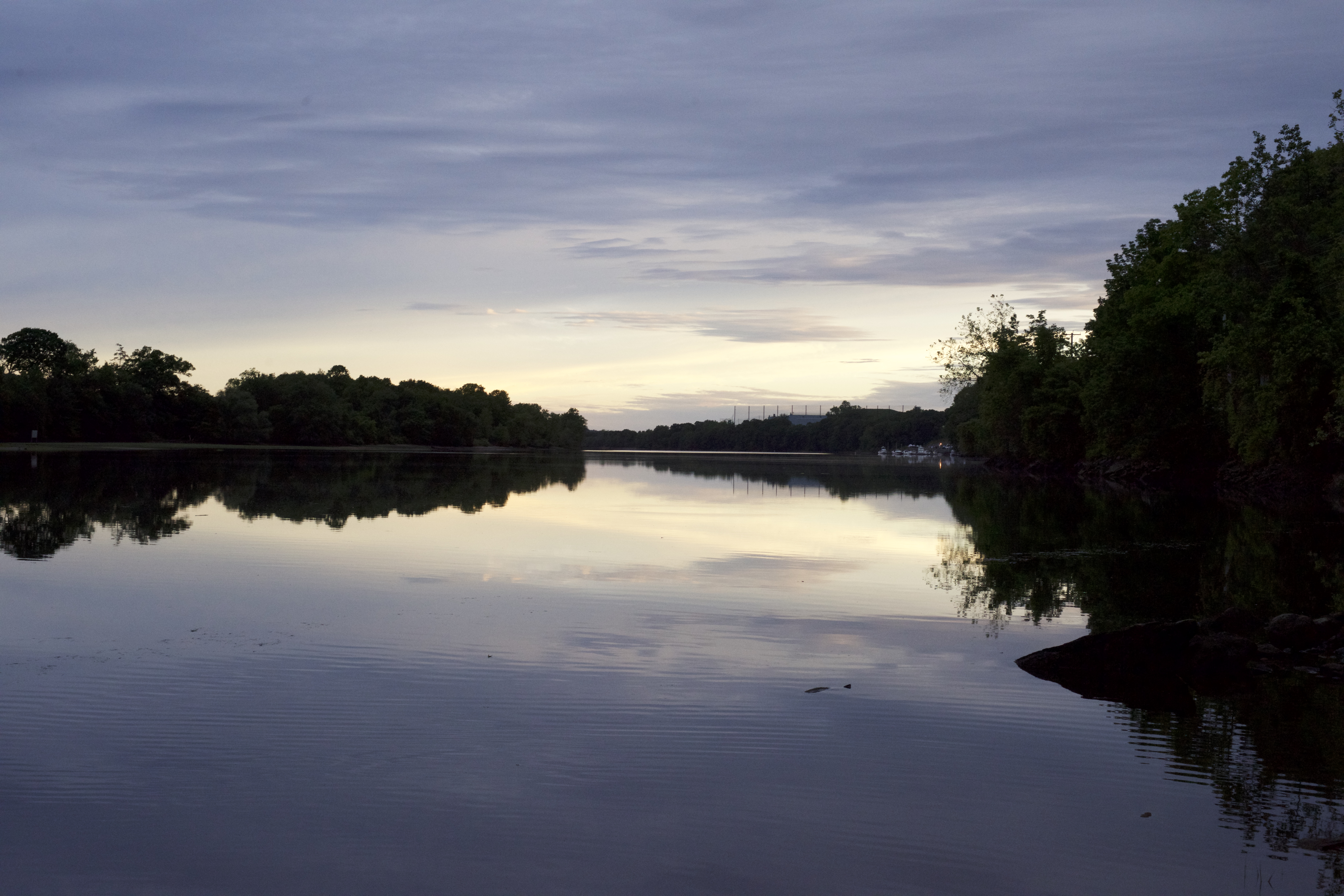 Houstatonic river at sunset.